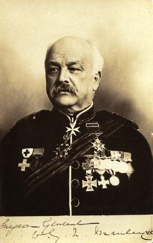 Brief Description Photographic postcard of the bust of Assistant-Surgeon William George Nicholas Manley, winner of the Victoria Cross. Manley is dressed in military uniform and is wearing his military medals. Accession No PHO2009-069 Name/Title Assistant-Surgeon William George Nicholas Manley Primary Maker Unknown Primary Prod Role Photographer Primary Prod Date Post 1870